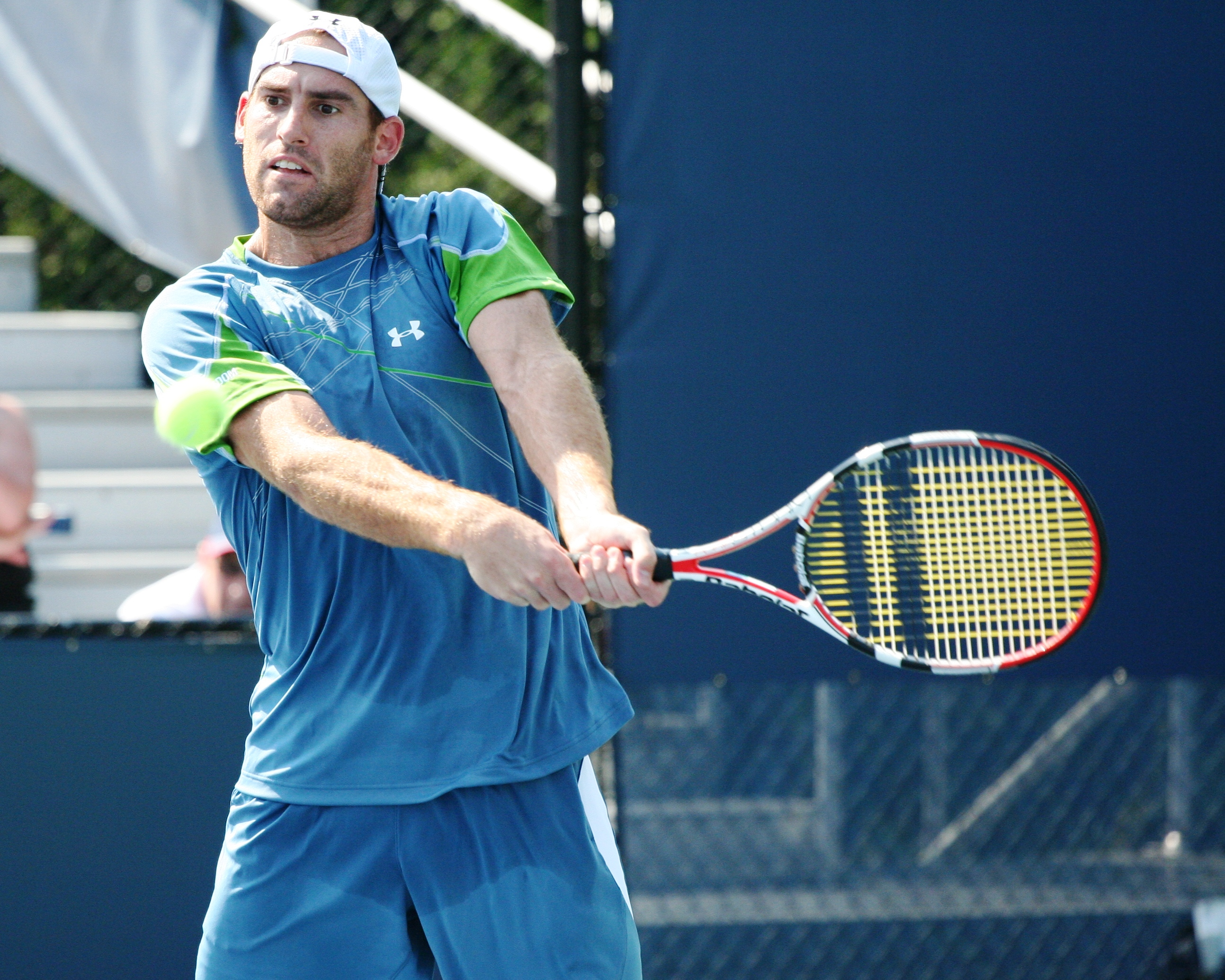 U.S. Open Tuesday, Aug. 31, 2010